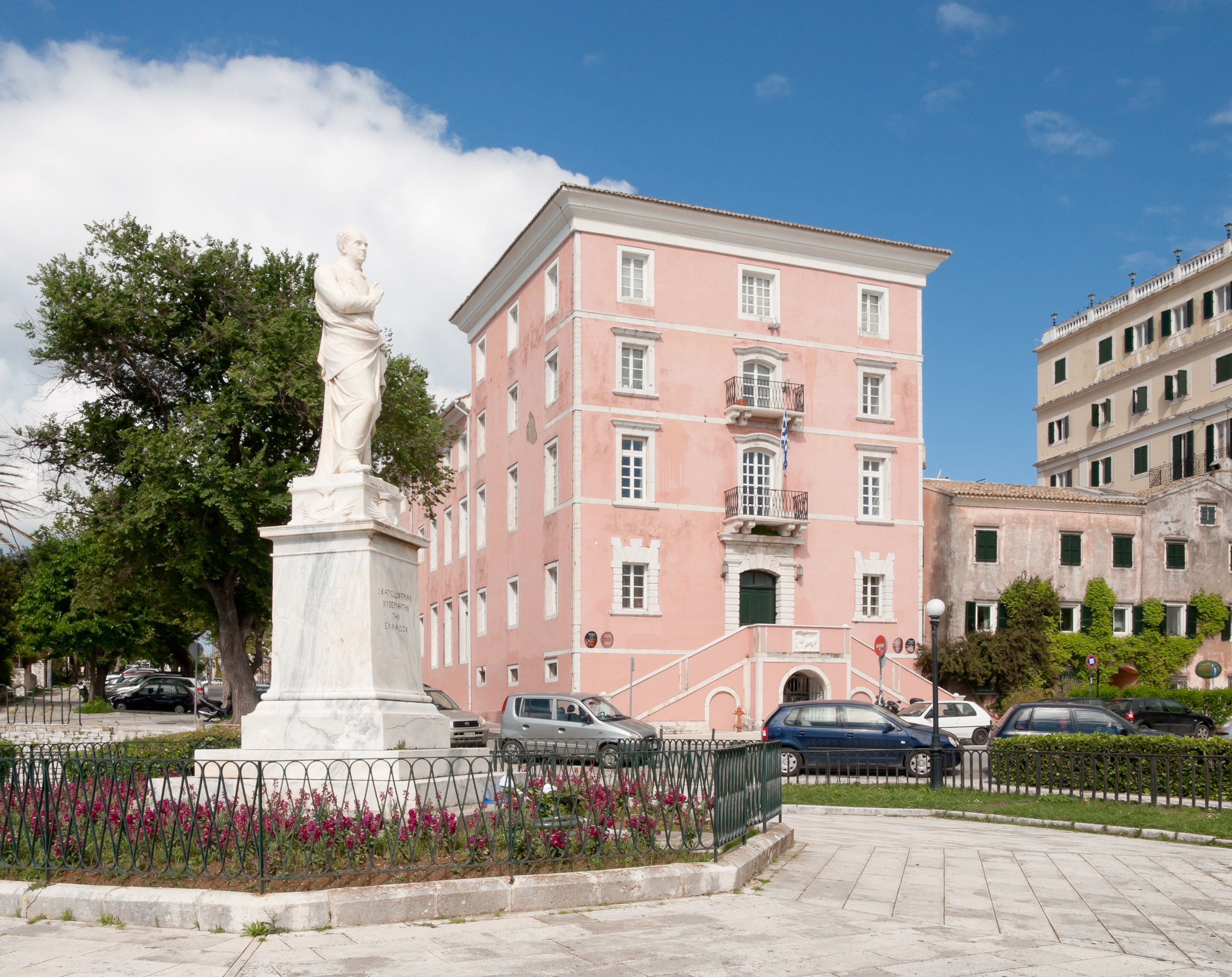 The building of the old Ionian Academy in Corfu, founded in 1824, with the monument of Ioannis Kapodistrias - the first head of the independent Greek state.